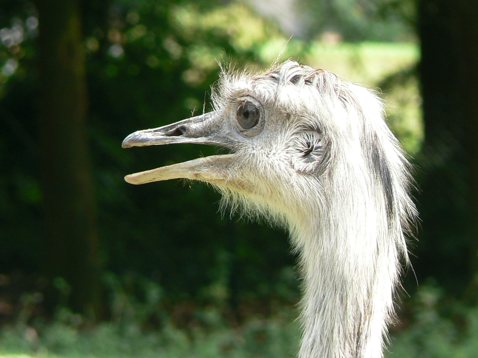 rhea americana / Greater rhea / nandu